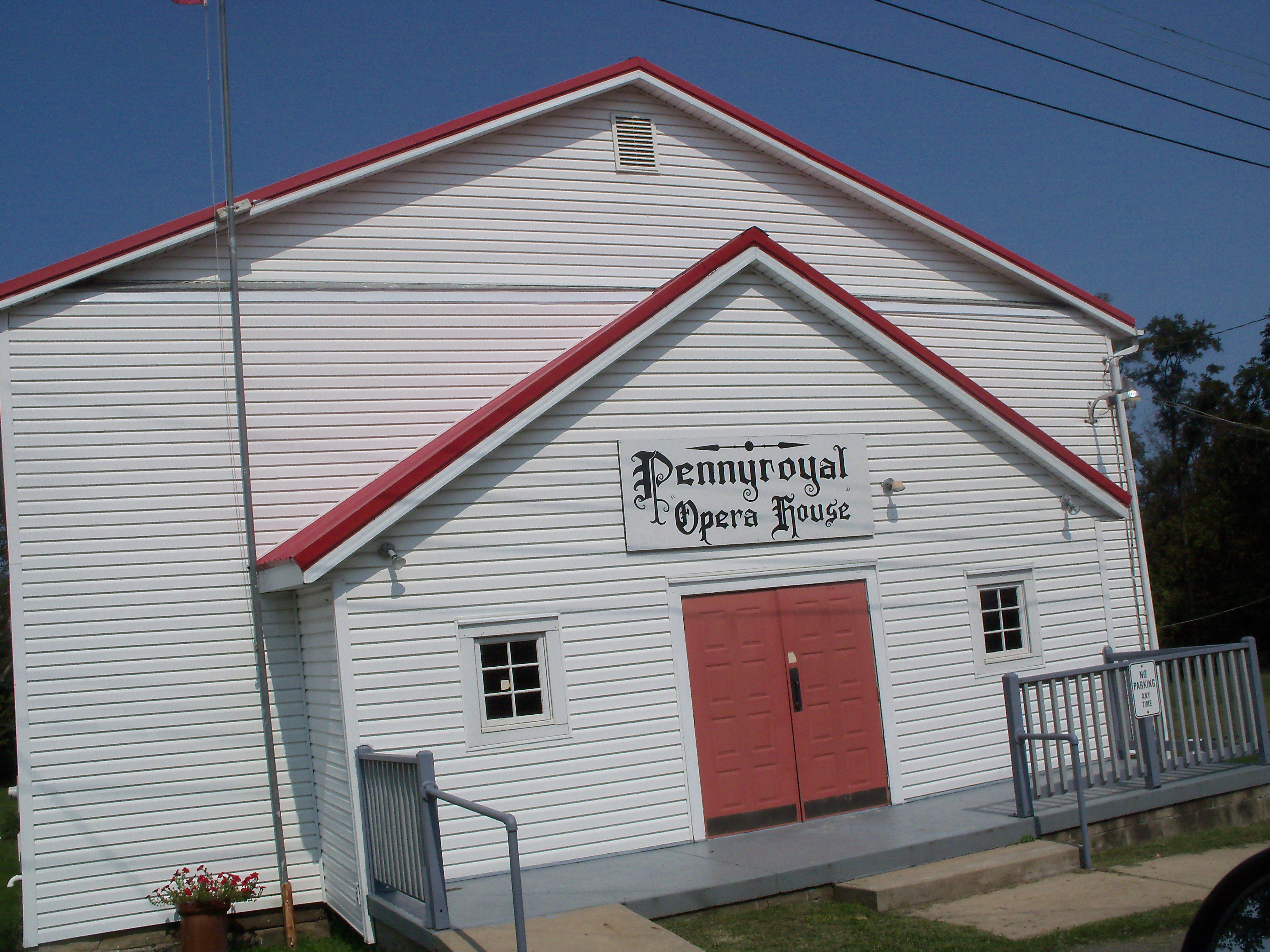 Pennyroyal Opera House is a music venue in Fairview, Ohio. Built in 1830 as a Methodist Church, it later was a Grange Hall, before becoming a music venue.